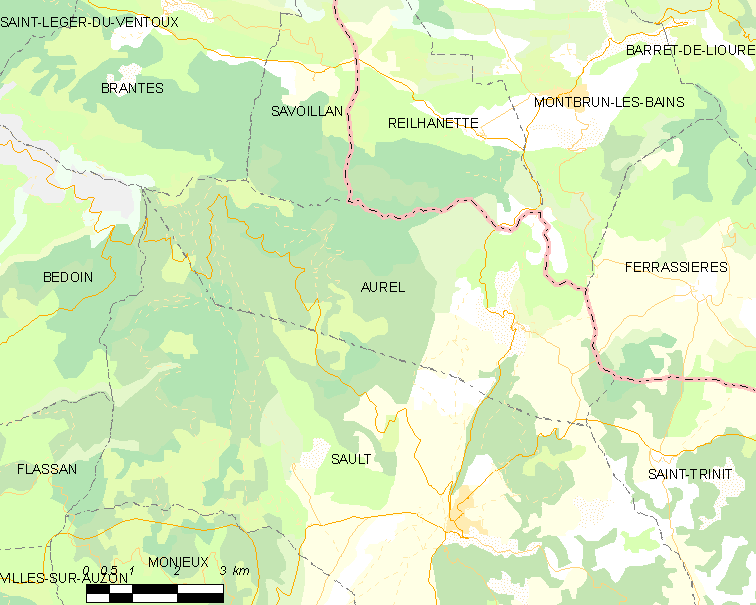 Map of French municipality Aurel